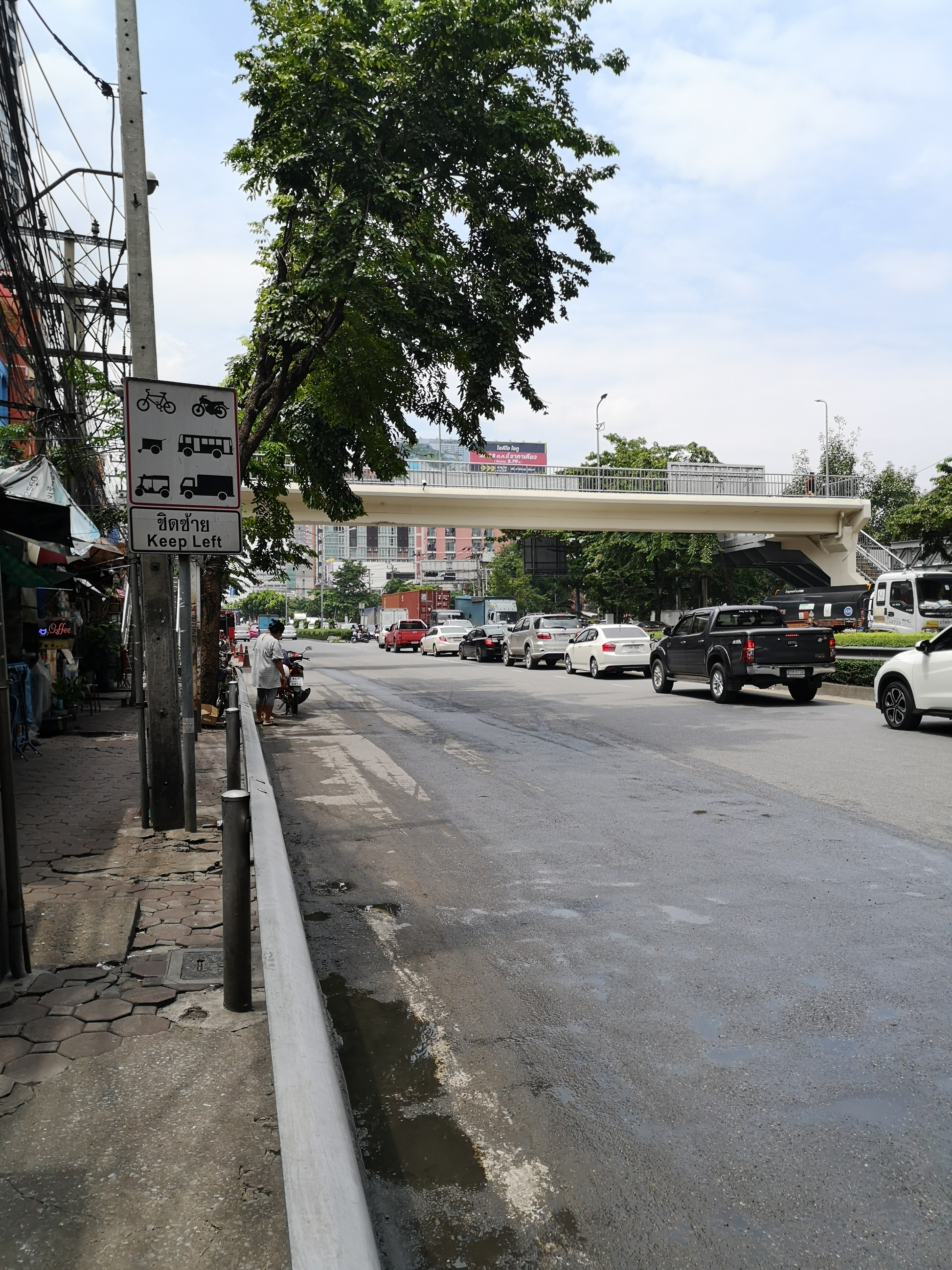 Thanon Sanphawut